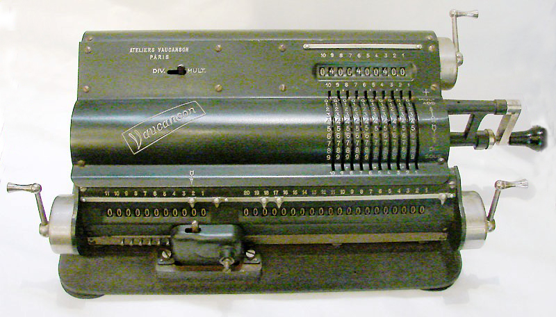 Adding machine